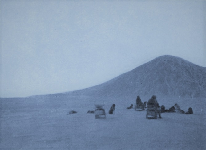 Robert Peary's picture at Cape Morris Jesup